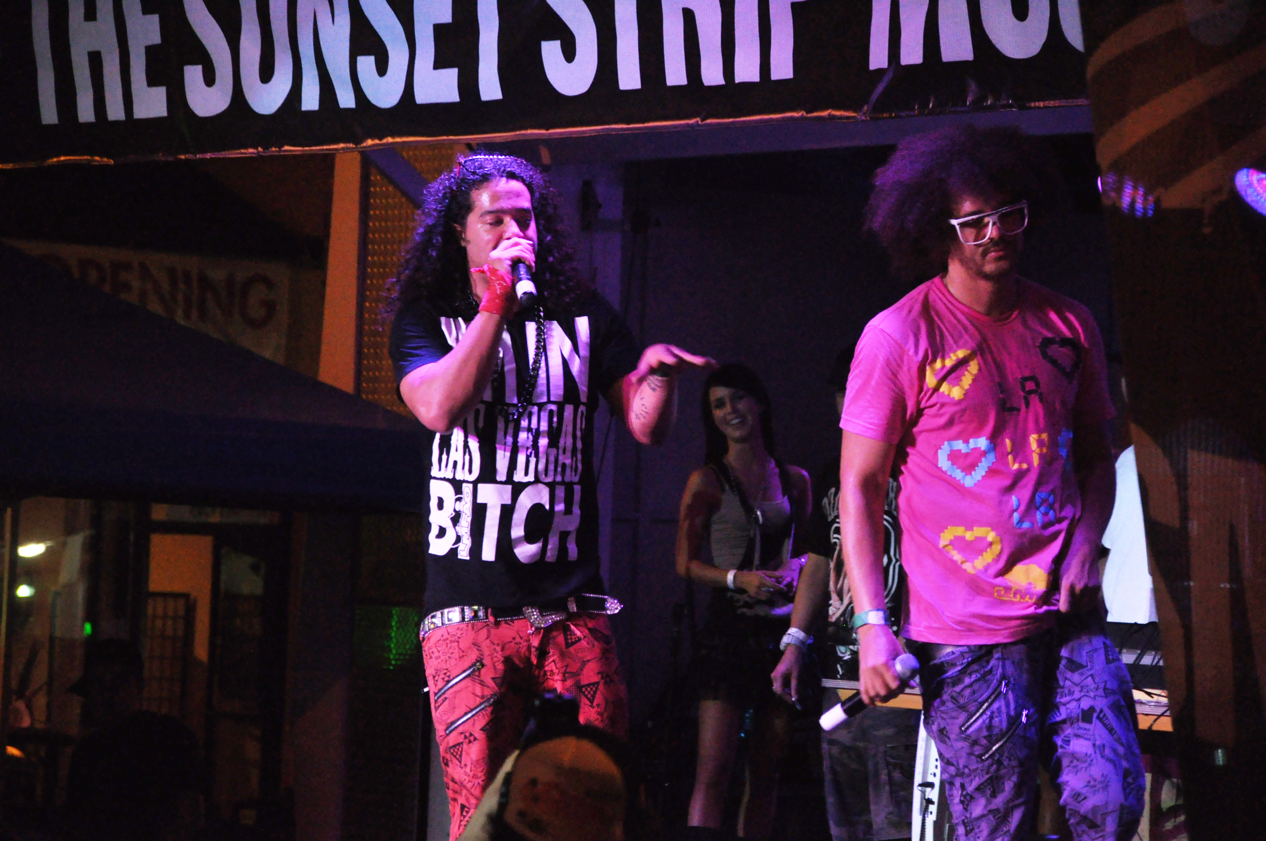 LMFAO at the Sunset Strip Music Festival 2009